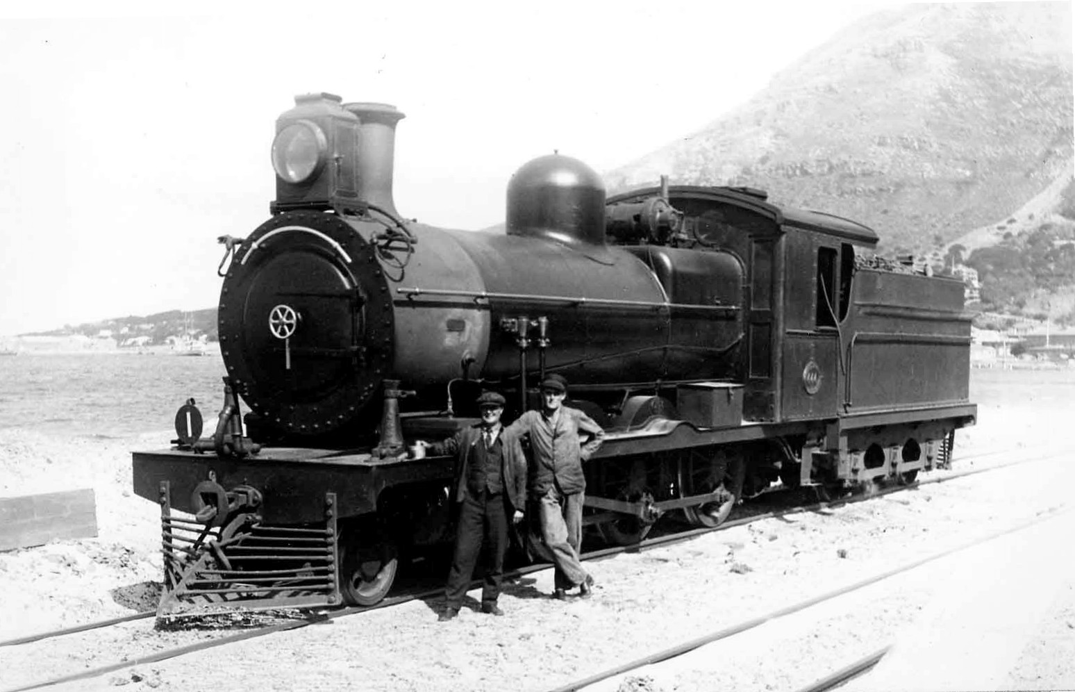 SAR Class 6A 4-6-0 no. 444, with Belpaire firebox Location: On the Simon’s Town line with Simon's Town in the background, driver Cooper and stoker C. Ley.